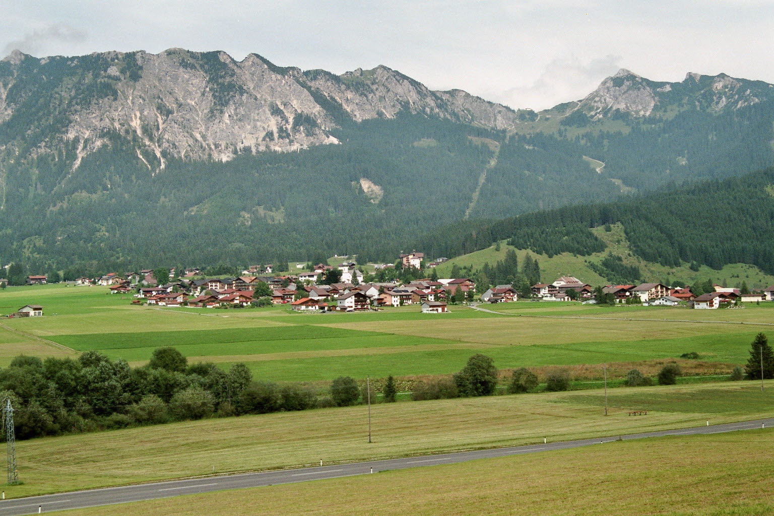 View to Northeast on Grän (1138 m). In the background the aerial tramway up to Füssener Jöchle (1821 m), left of it Lumberger Grat (1860 m) and Seichenkopf (1864 m), on the right Läuferspitze (1956 m) and Haller Schrofen (1934 m).